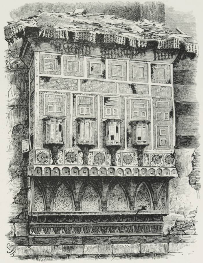 MASHREBEEYEH WINDOW.A building façade with covered windows jutting out past lower walls.